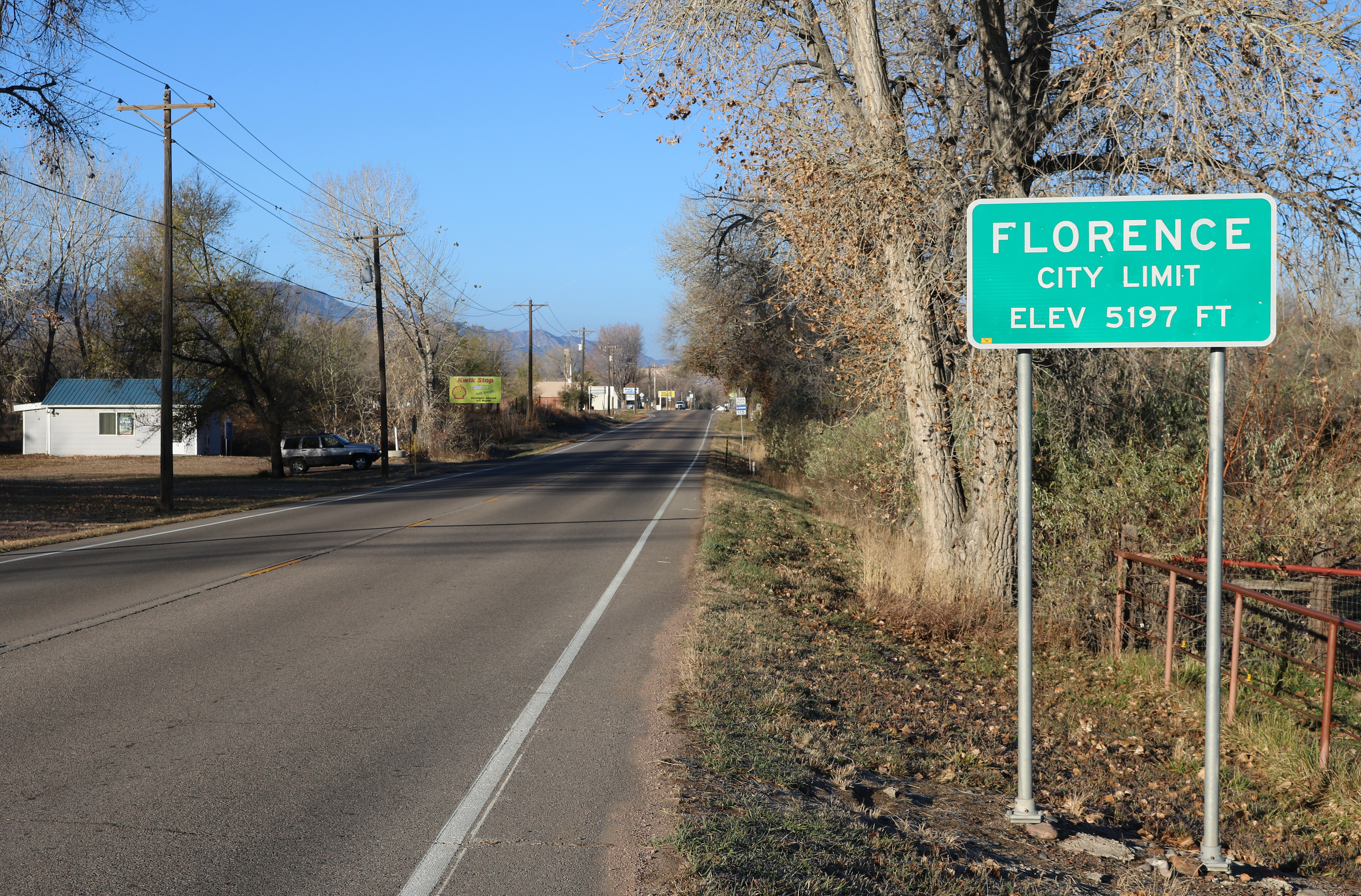 A city-limit sign marking the entrance to Florence, Colorado, in Fremont County. The road is Colorado State Highway 115, which is East Main Street in Florence.